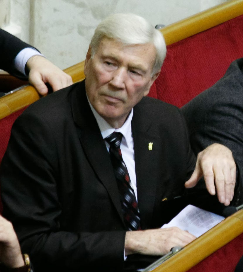 Oleksandr Oksentiyovych Shevchenko, Ukrainian politician, member of the Ukrainian Verkhovna Rada